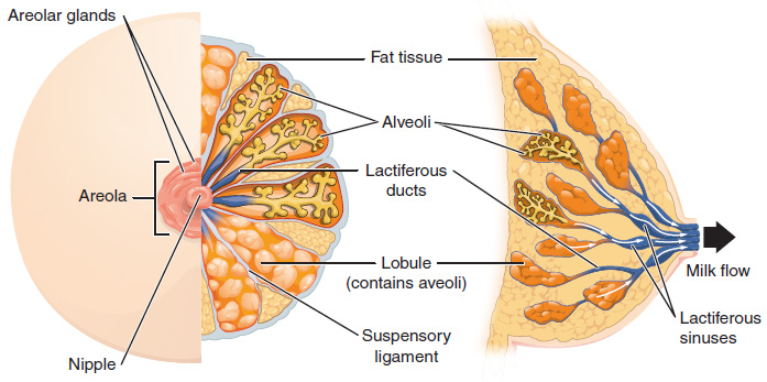 Illustration from Anatomy & Physiology, Connexions Web site. Jun 19, 2013.